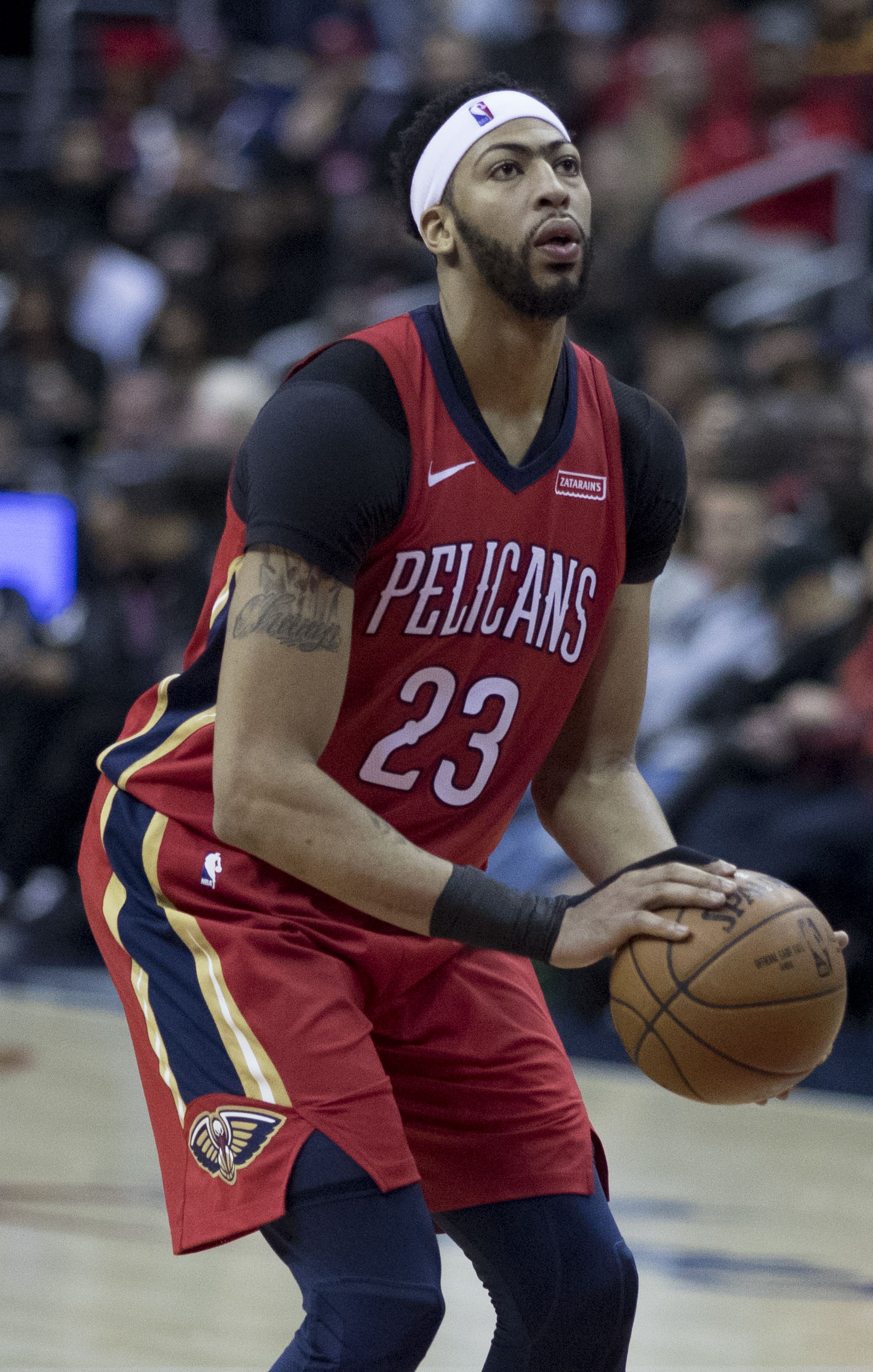 Pelicans at Wizards 12/19/17